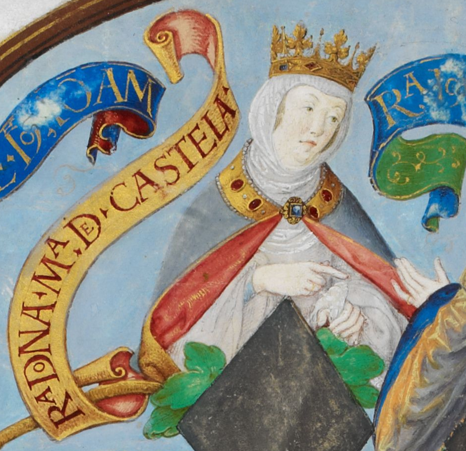 Maria de Portugal (1313-1357), «Most Beautiful Maria», Queen consort of Castile.